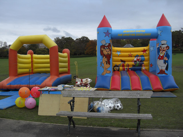 Bouncy castles Erected on the east side of the lake in Saltwell Park.